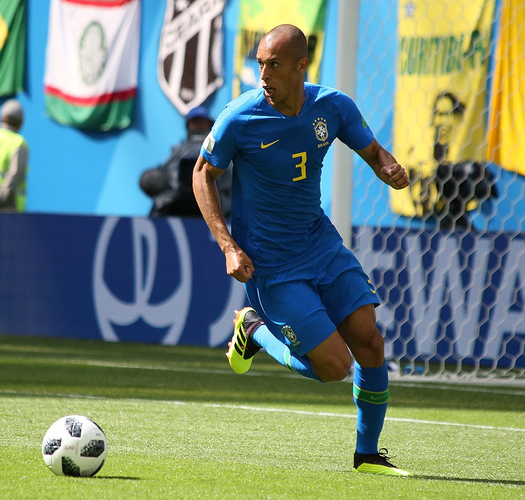 João Miranda